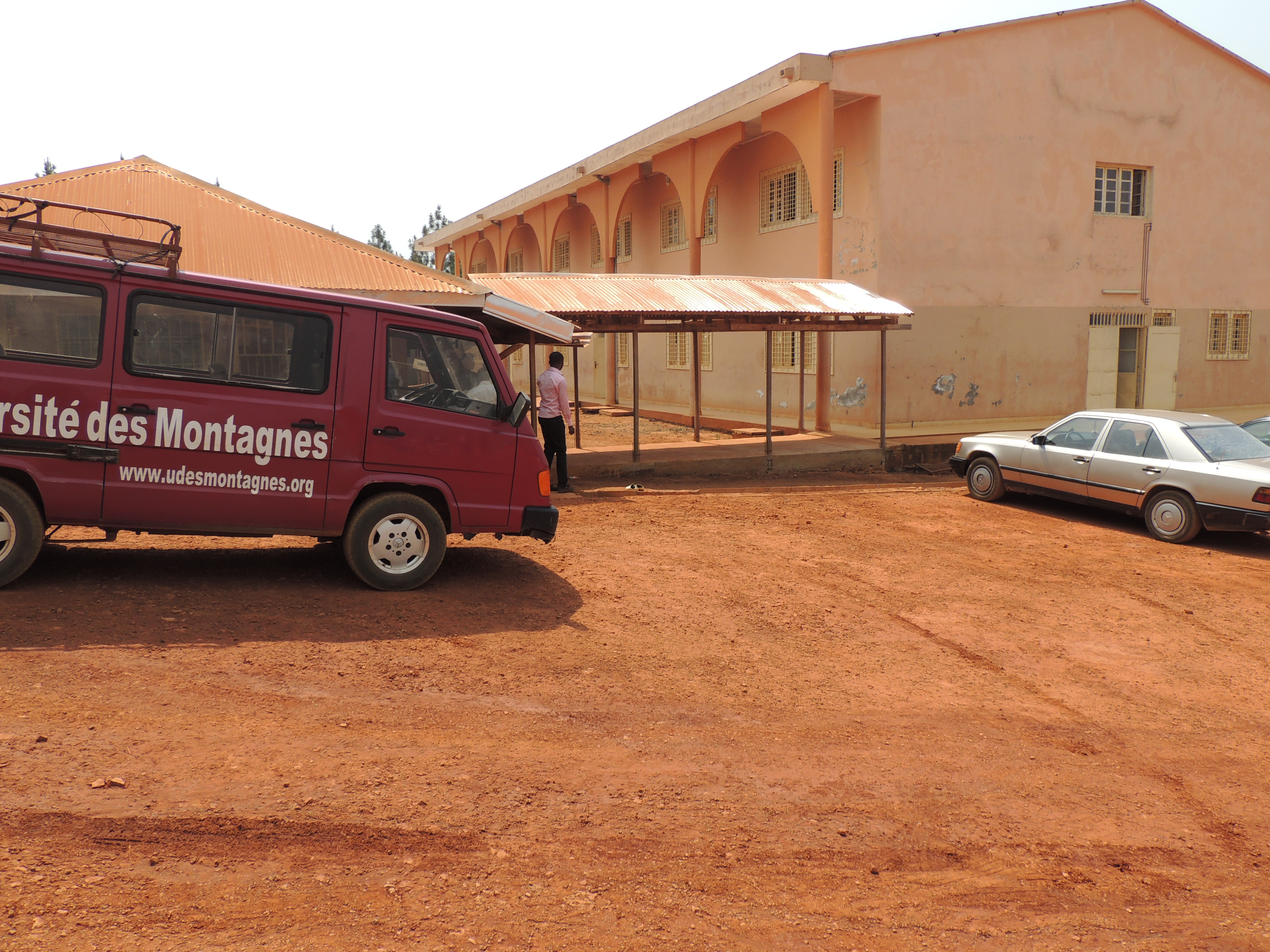 Cliniques Universitaires des Montagnes